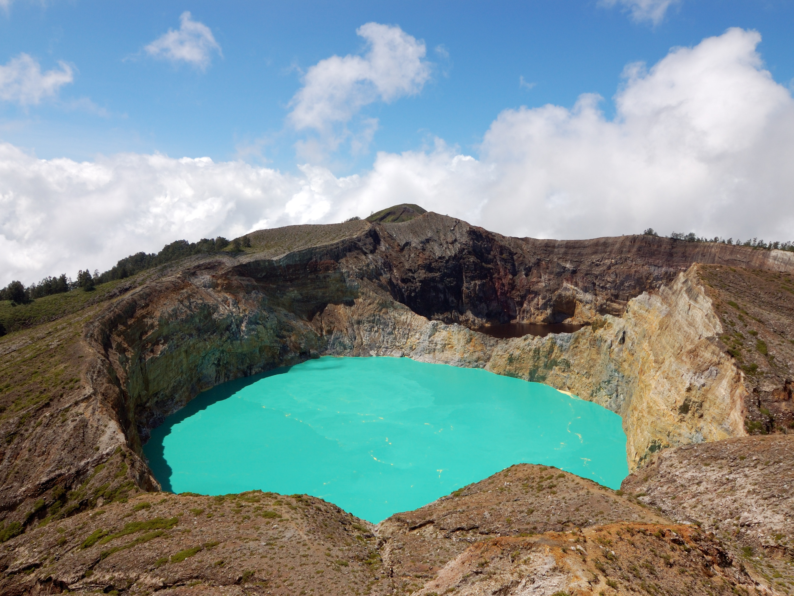 Kelimutu, Flores, Indonesia, Location: Flores (Indonesia)